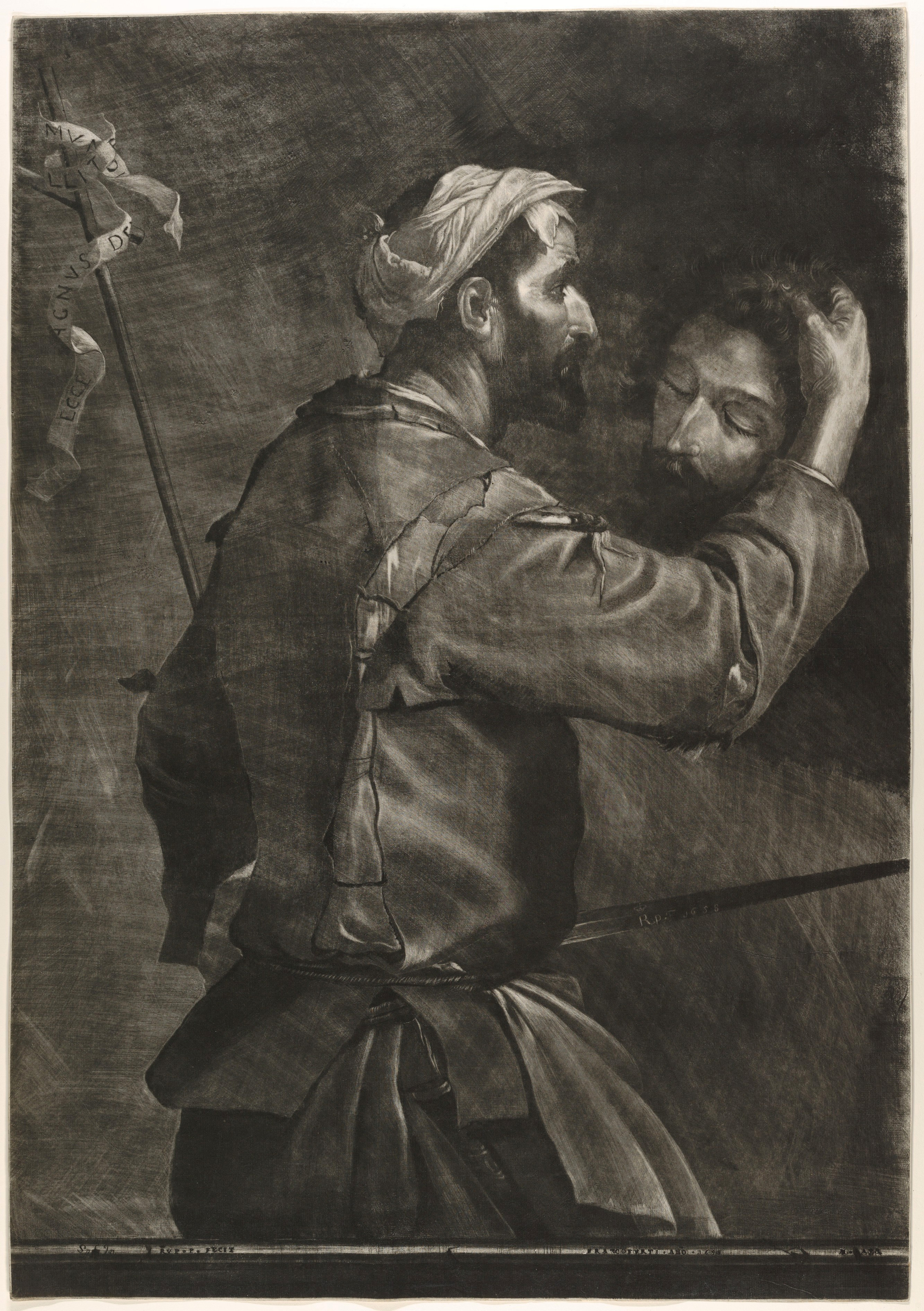 the most ambitious mezzotint produced during the seventeenth century. The print reproduces a painting now in the Alte Pinakothek, Munich.